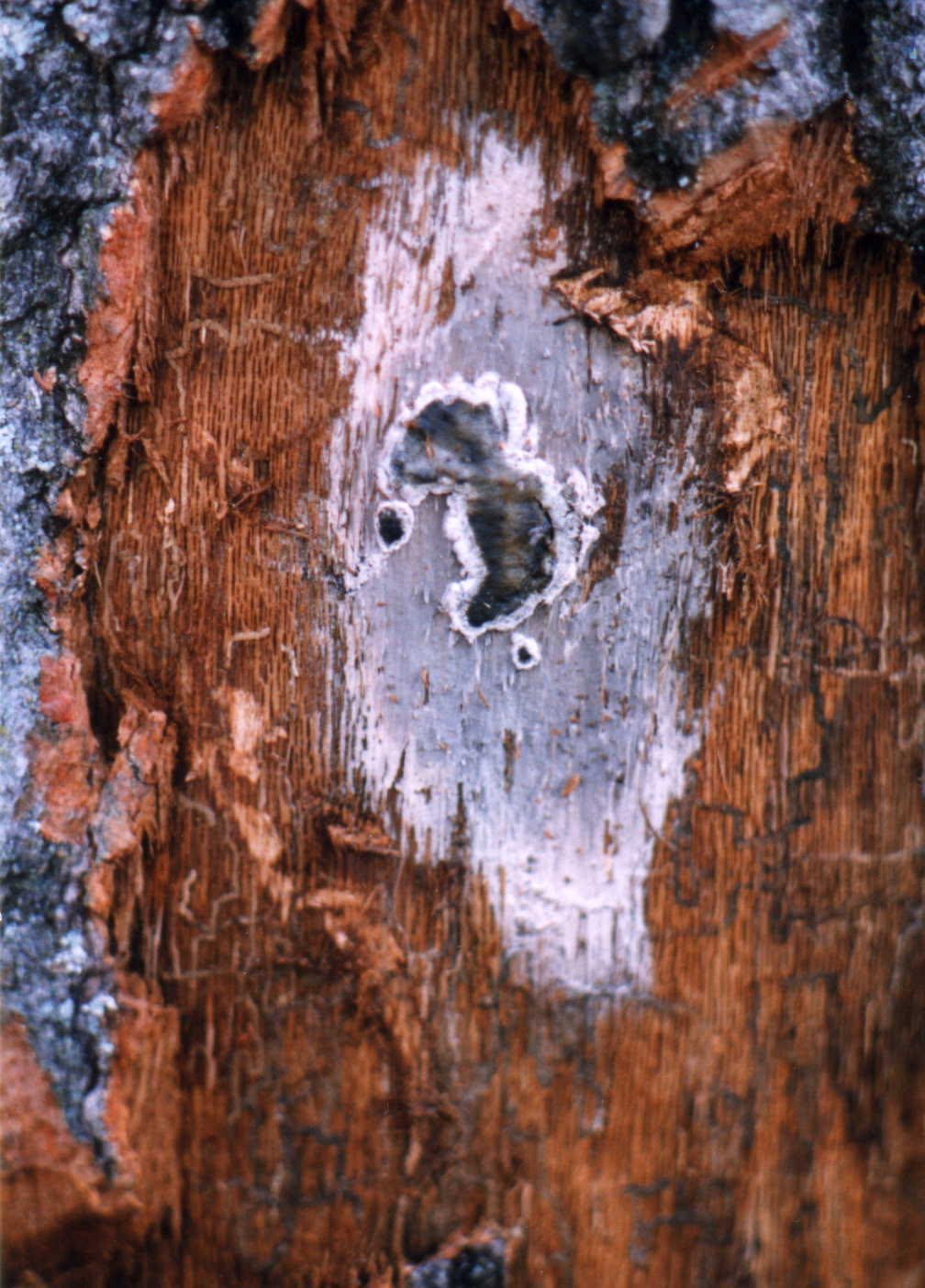 Spore mat at Infectious stage aka stage III